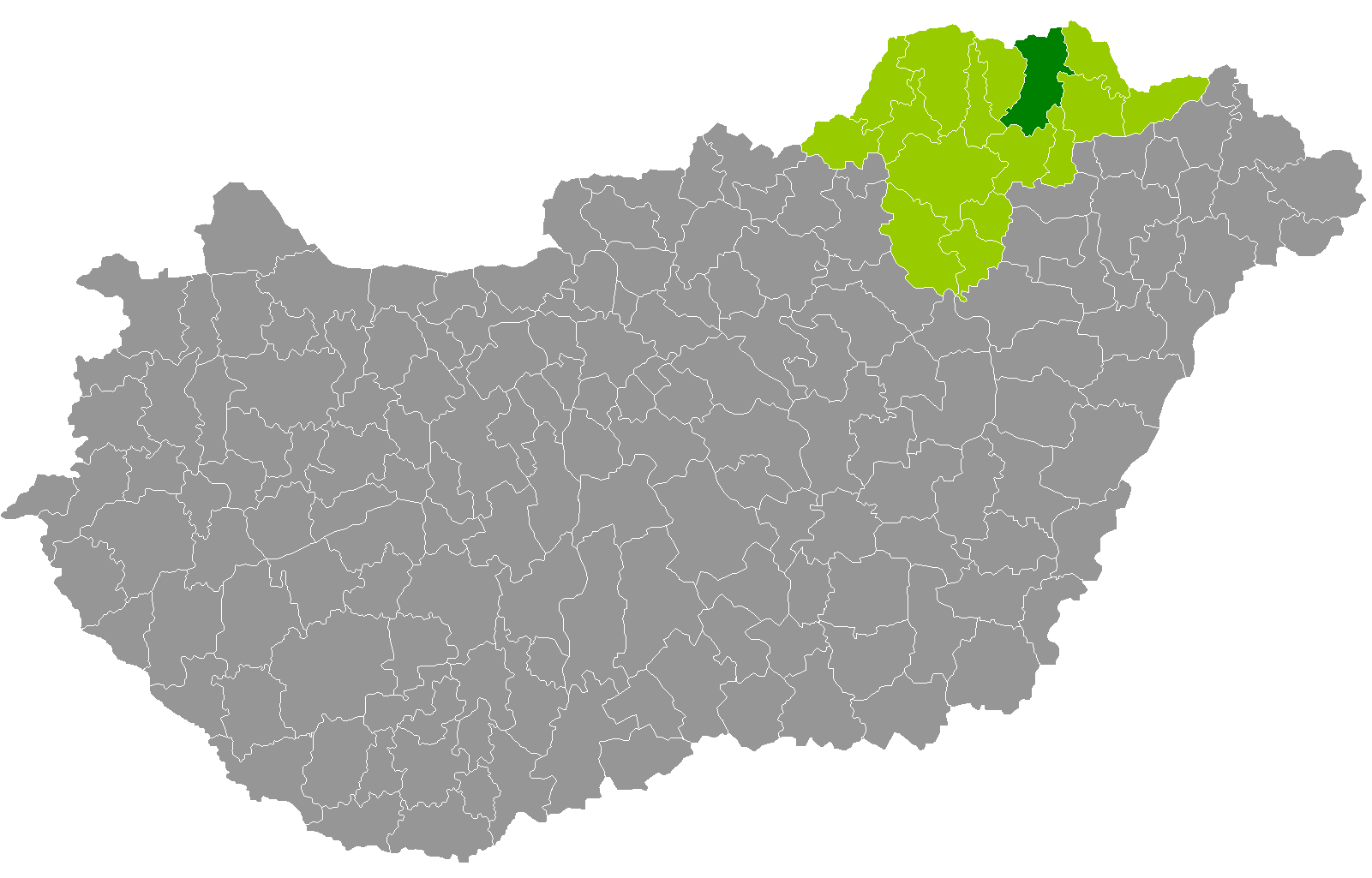 Location of Gönc District, Borsod-Abaúj-Zemplén, Hungary